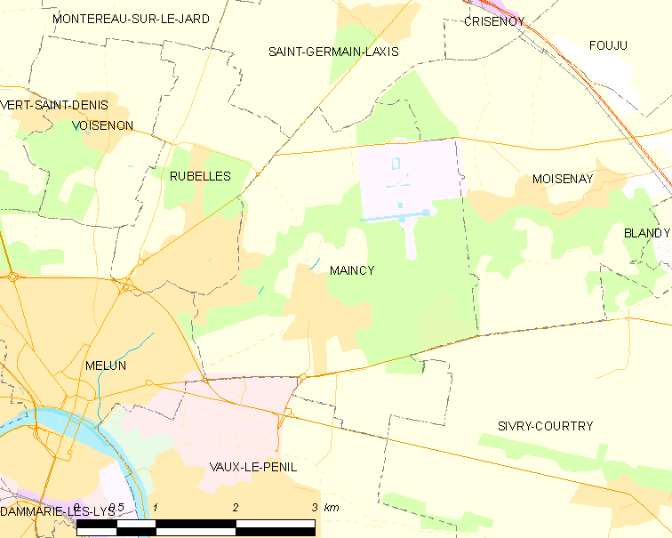 Map of French municipality Maincy